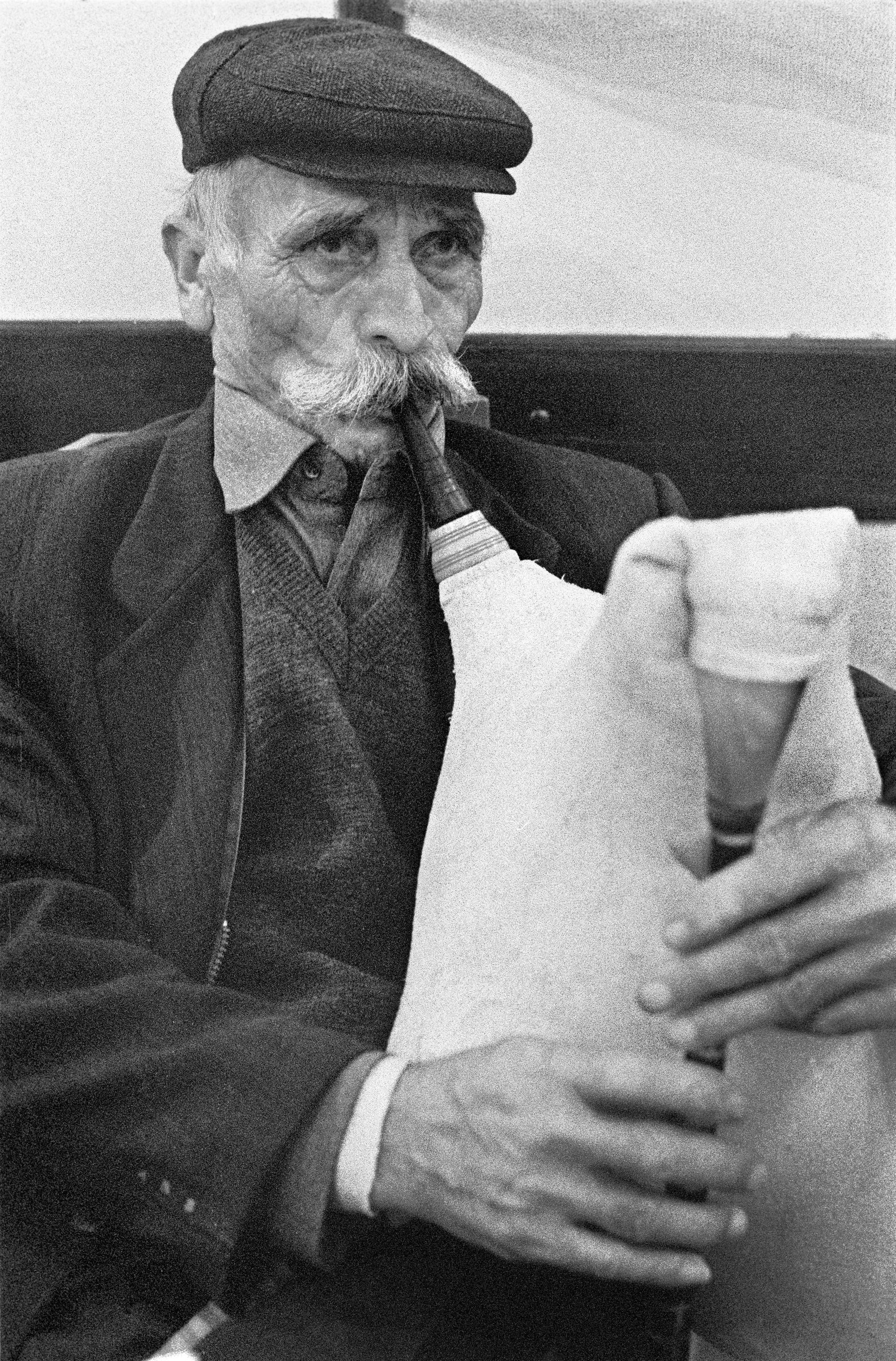 Sideris: Bagpipe player, Didymoteicho - Evros, West Thrace, Greece.